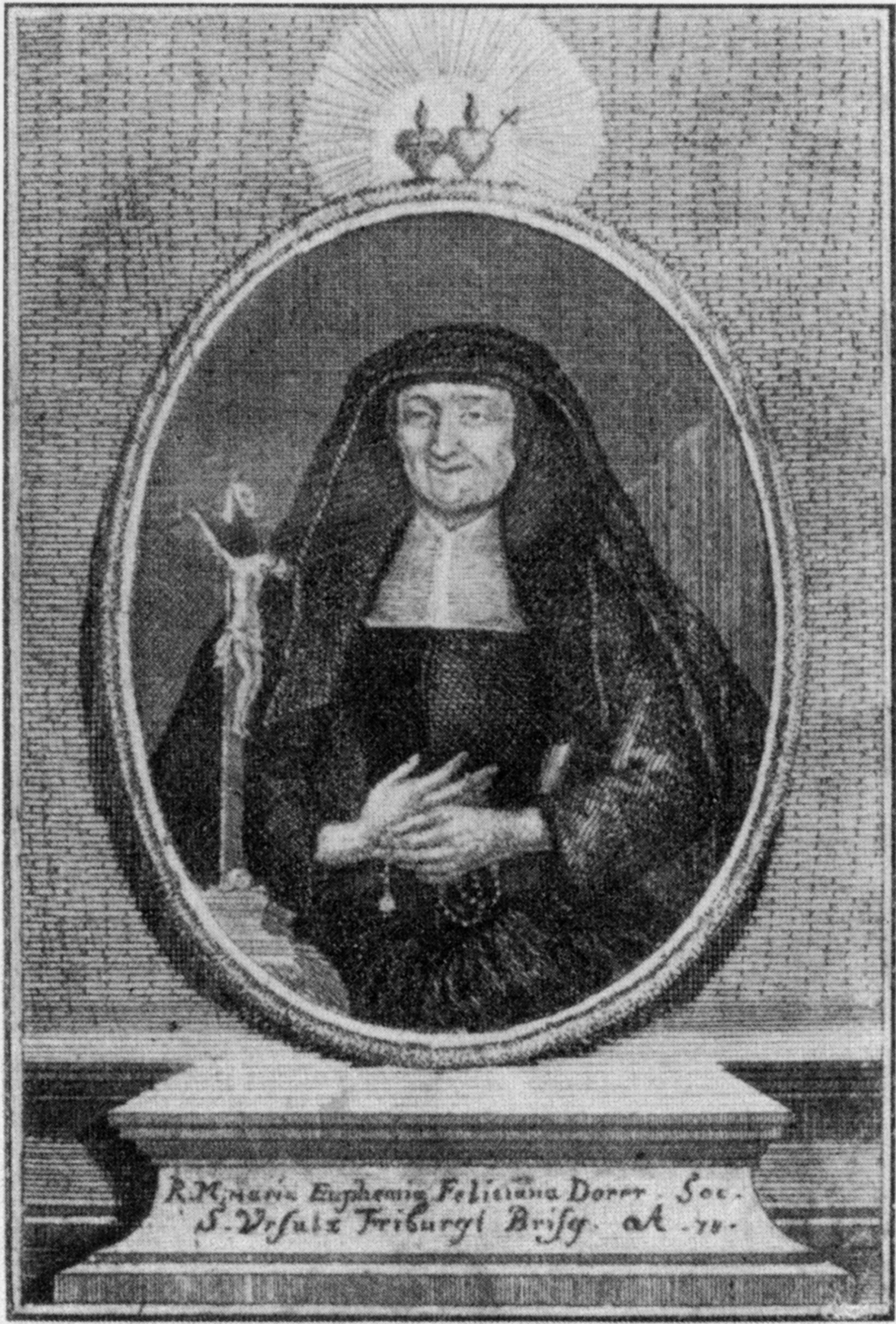 Etching of Euphemia Dorer, abbess of monastery of st. Ursula, Freiburg i.Br., Germany